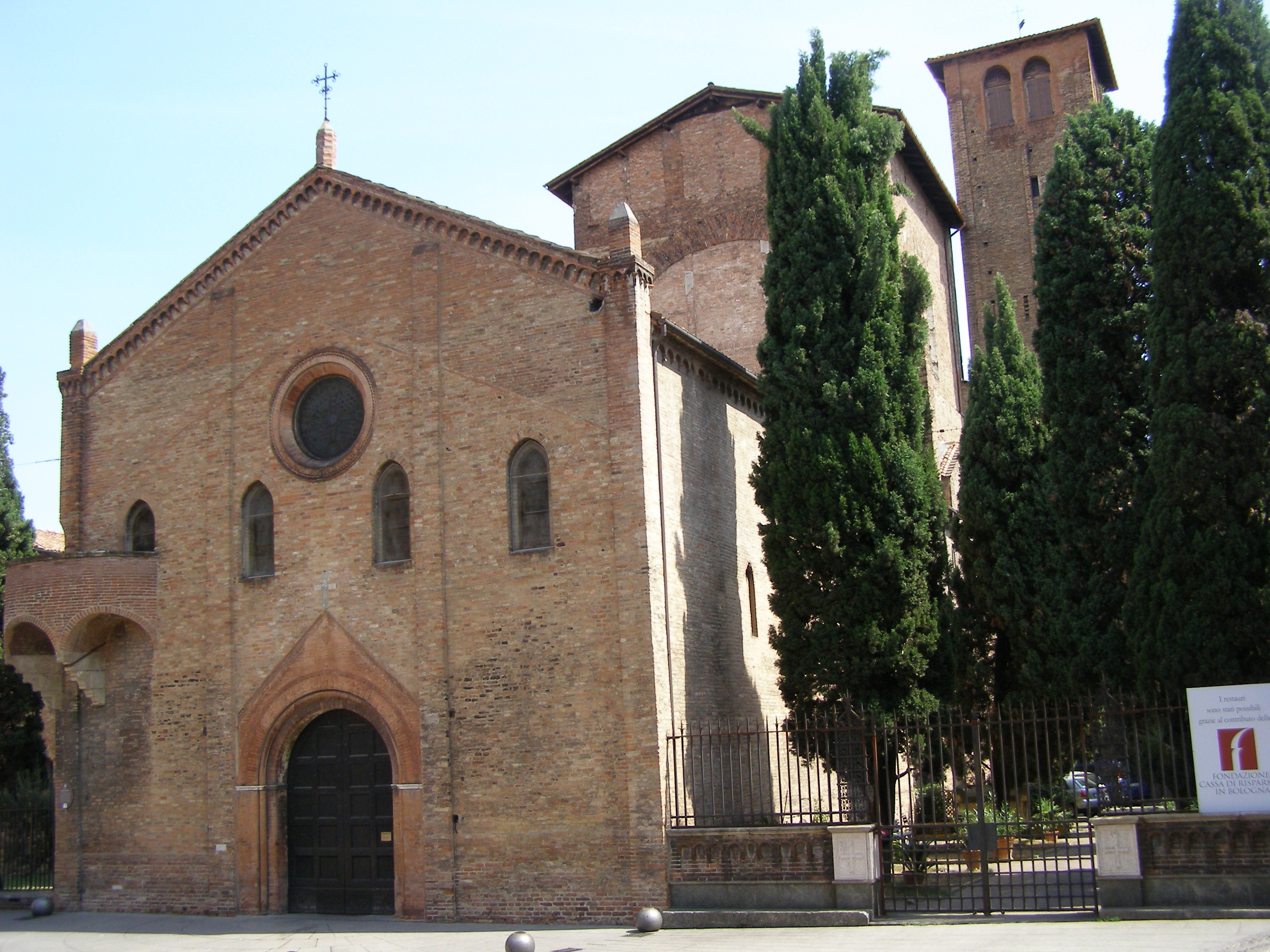 Bologna - St. Stephen's basilica